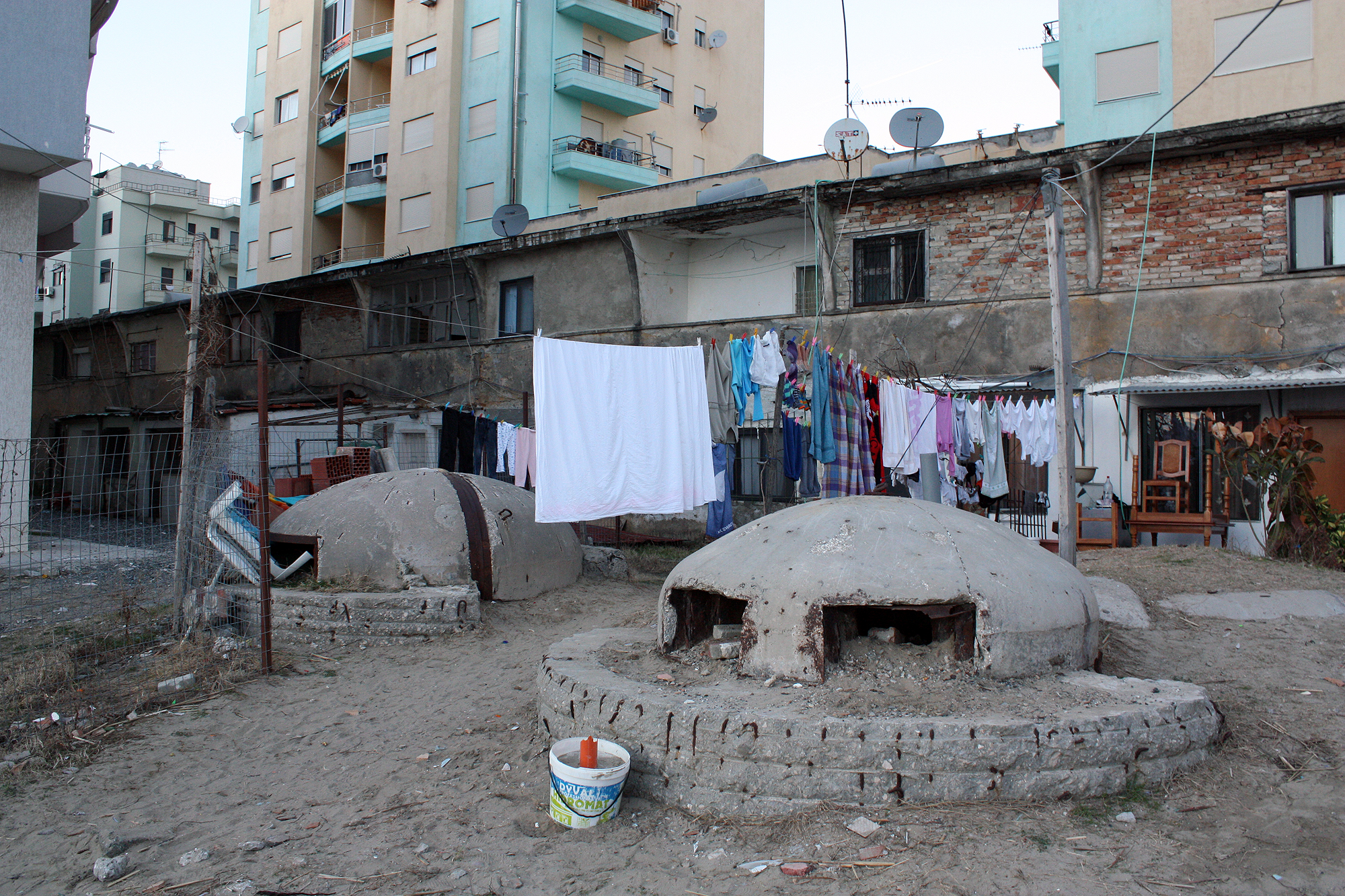 Bunkers, old and new buildings along the Durres coast